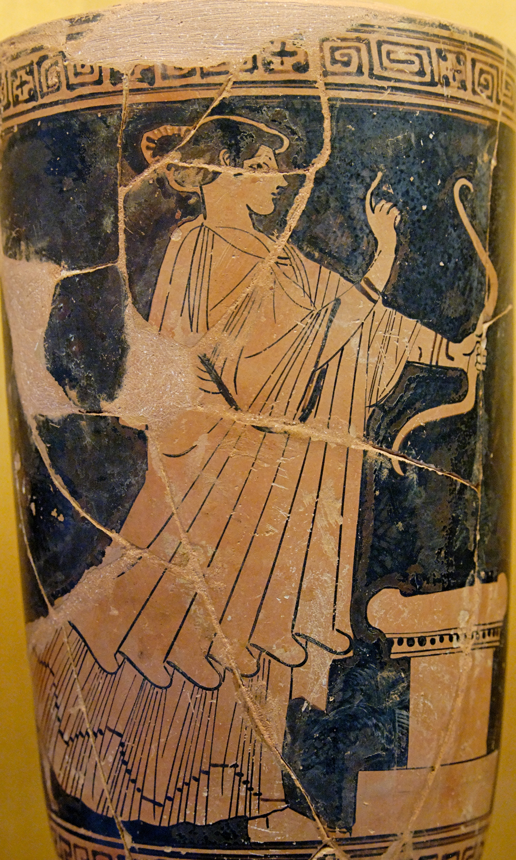 Artemis with bow and arrow in front of an altar. Attic red-figure lekythos, ca. 475 BC. From tomb 123 of the Manicalunga necropolis in Selinunte, Sicily.